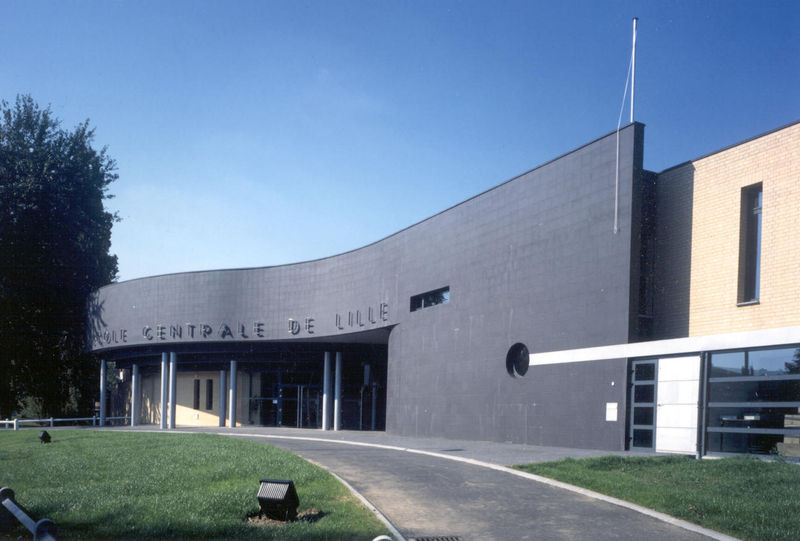 Entrance gate of École centrale de Lille